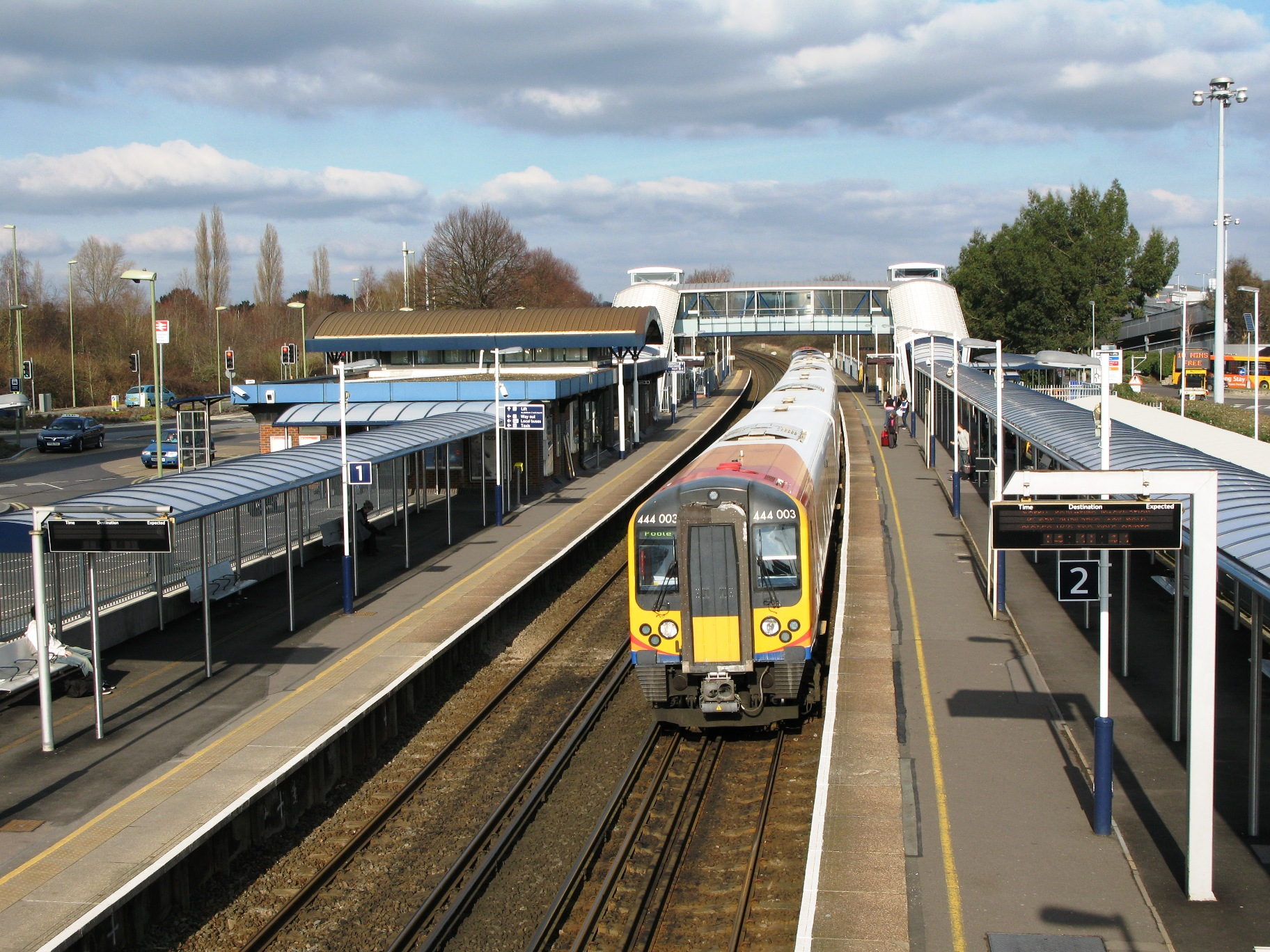 A South West Trains service from London Waterloo to Poole arrives at Southampton Airport Parkway station. It is formed by electric unit 444003.